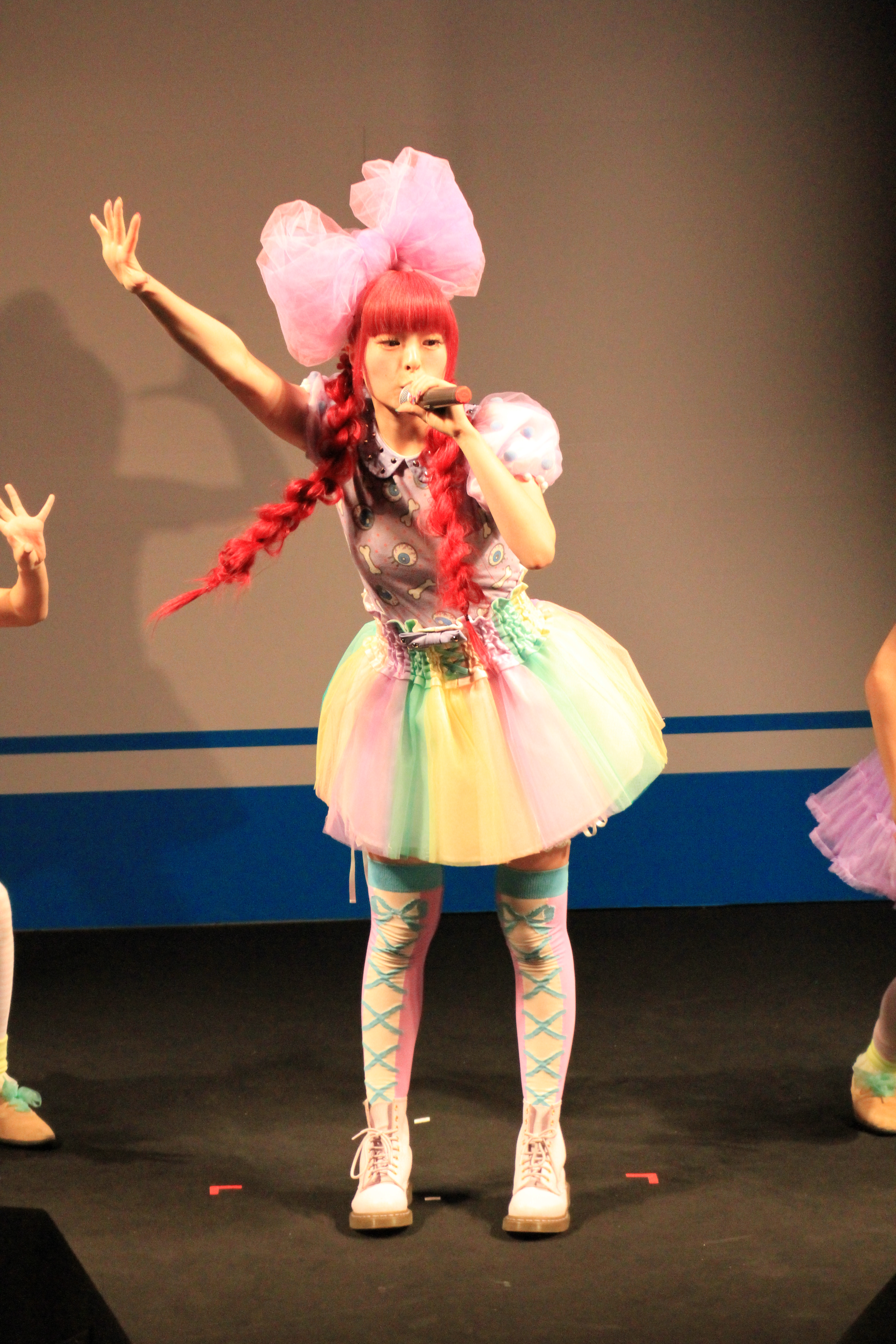 Japanese singer Kyary Pamyu Pamyu performing at the 4th Okinawa International Movie Festival, 30 March 2012. She performed her three songs, "Tsukematsukeru", "Candy Candy", and "Kyary no March".